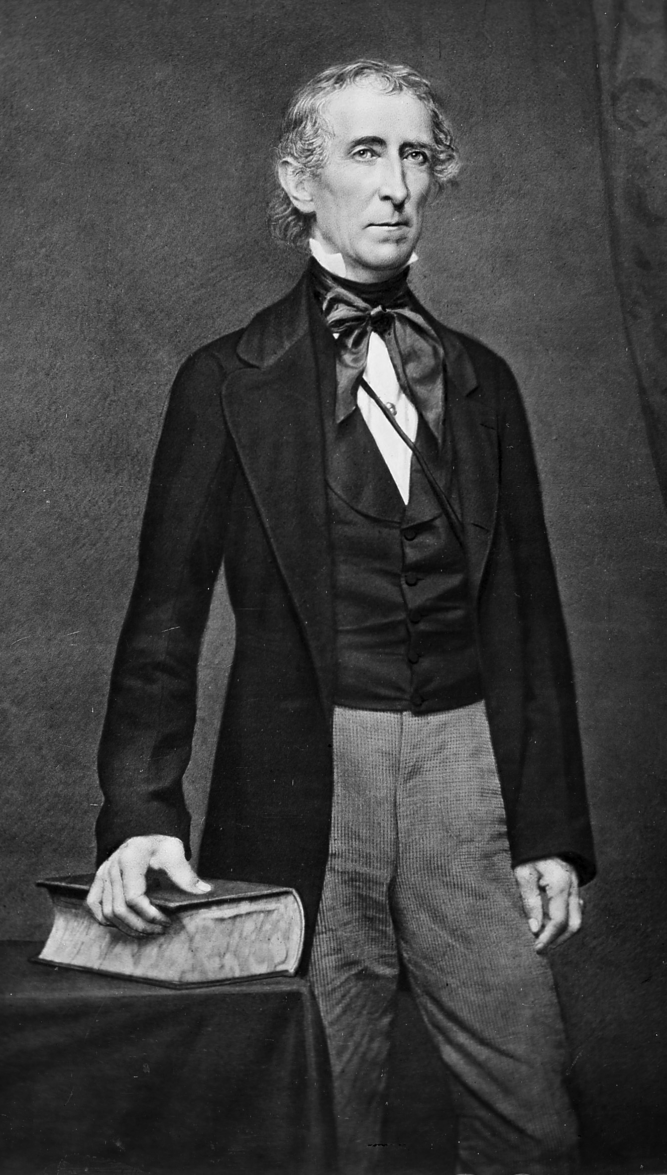 A photographic portrait of John Tyler by Matthew Brady. An extracted image.